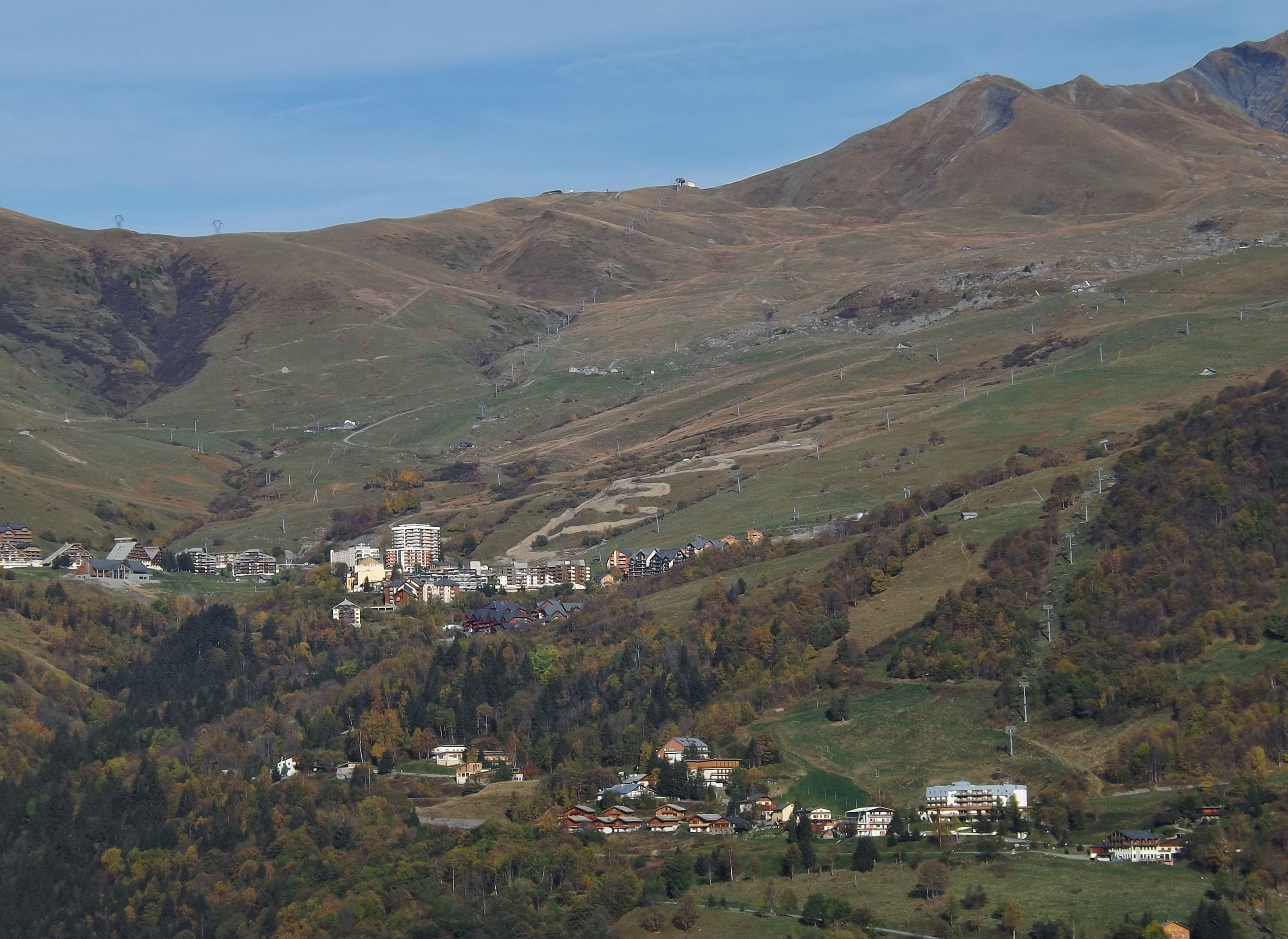 Panoramic sight on Saint-François-Longchamp village and ski resort, in the Lauzière mountains in Savoie, France.